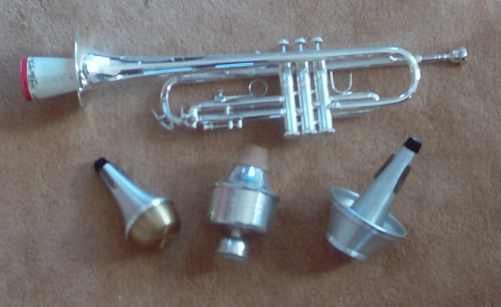 Taken by me with a Dakota Digital disposable (hence the poor quality). Picture shows trumpet with paper straight mute inserted, below are (left to right) straight, harmon, and cup mutes. It should be noted that the pictured position of the trumpet (i e the second valve pointed down) is generally considered a position that might damage the trumpet .